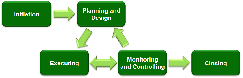 Project Management main phases